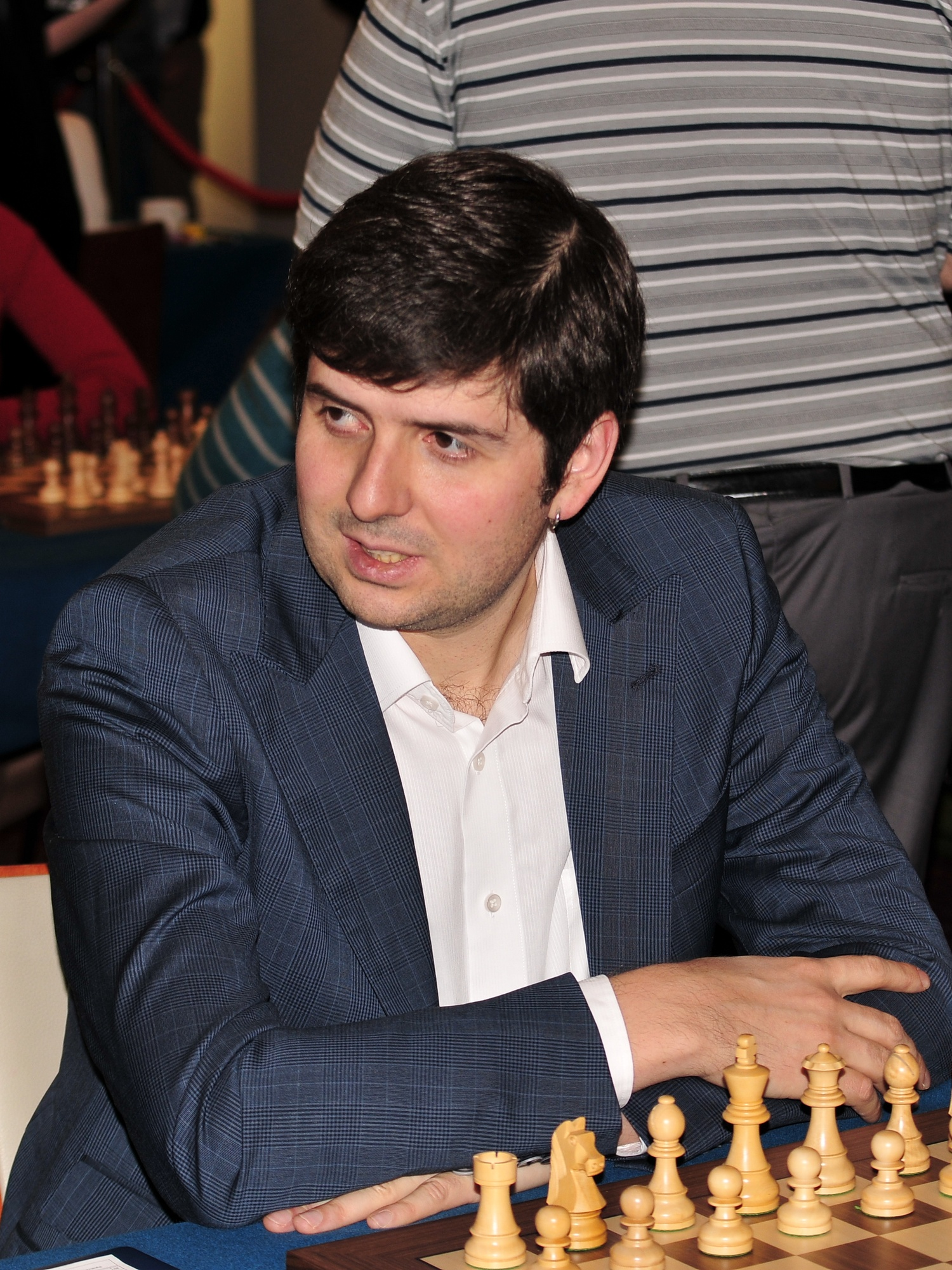 GM Peter Svidler, European Chess Team Championship Warsaw 2013